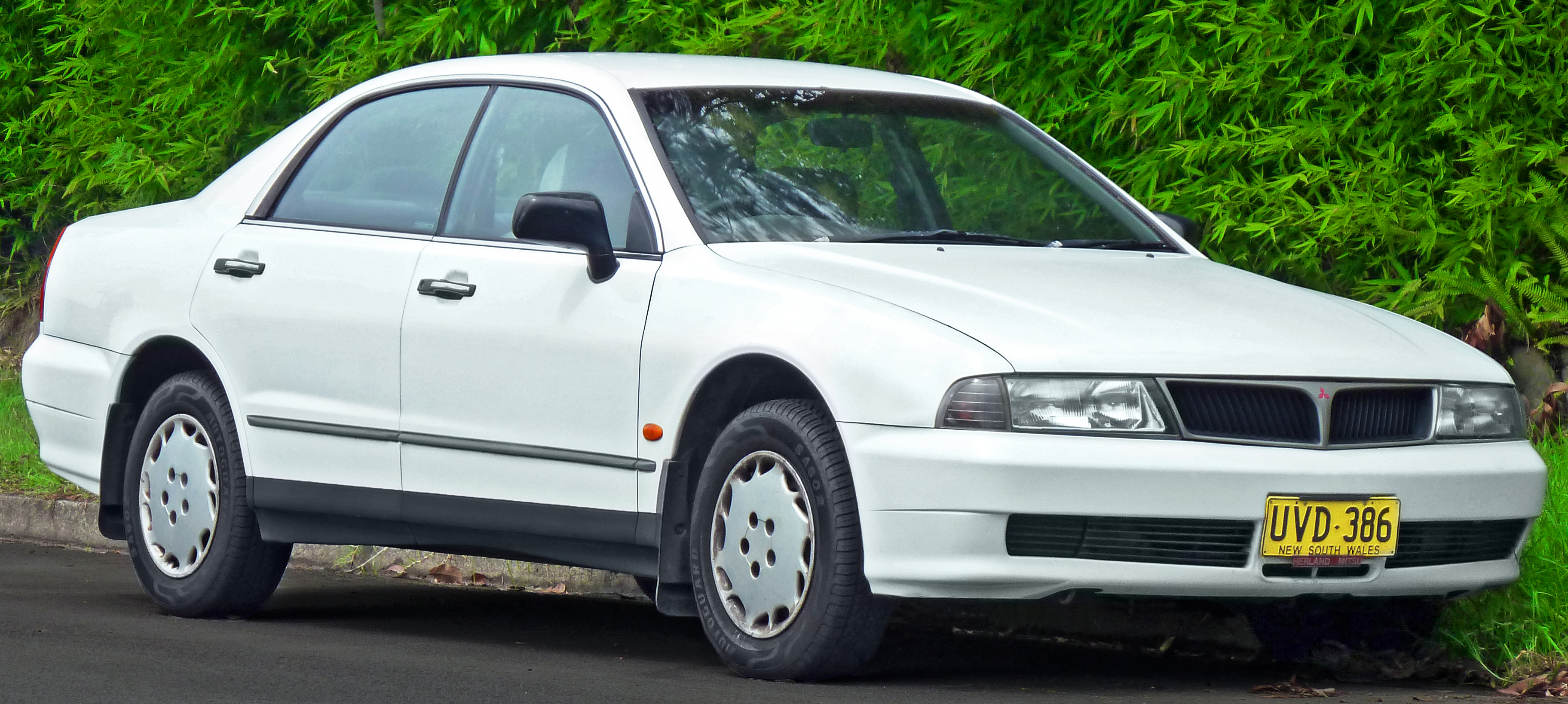 1996 Mitsubishi Magna (TE) Executive/Advance sedan. Photographed in Sylvania Heights, New South Wales, Australia.